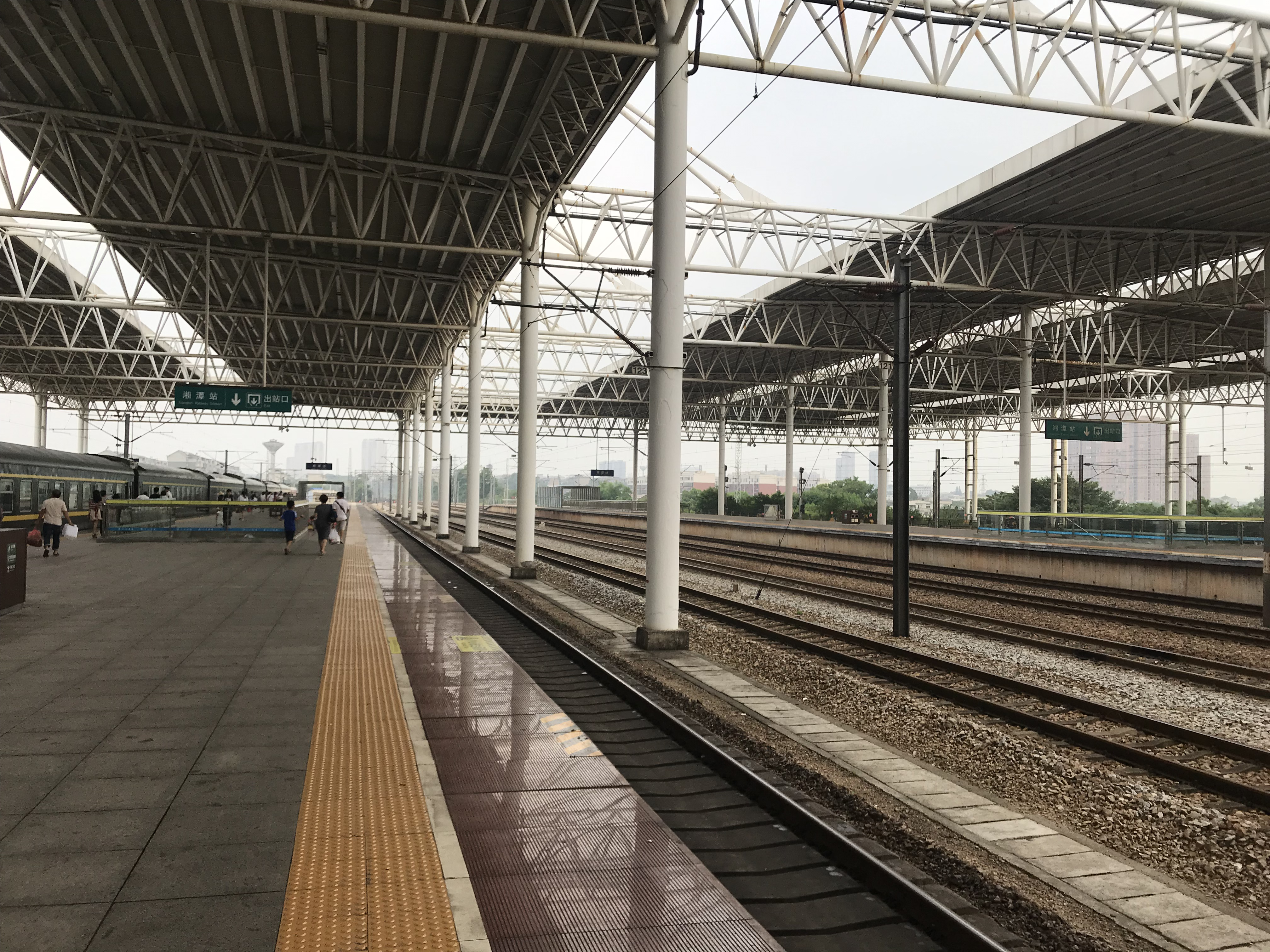 201908 Platform of Xiangtan Station Outbound Direction